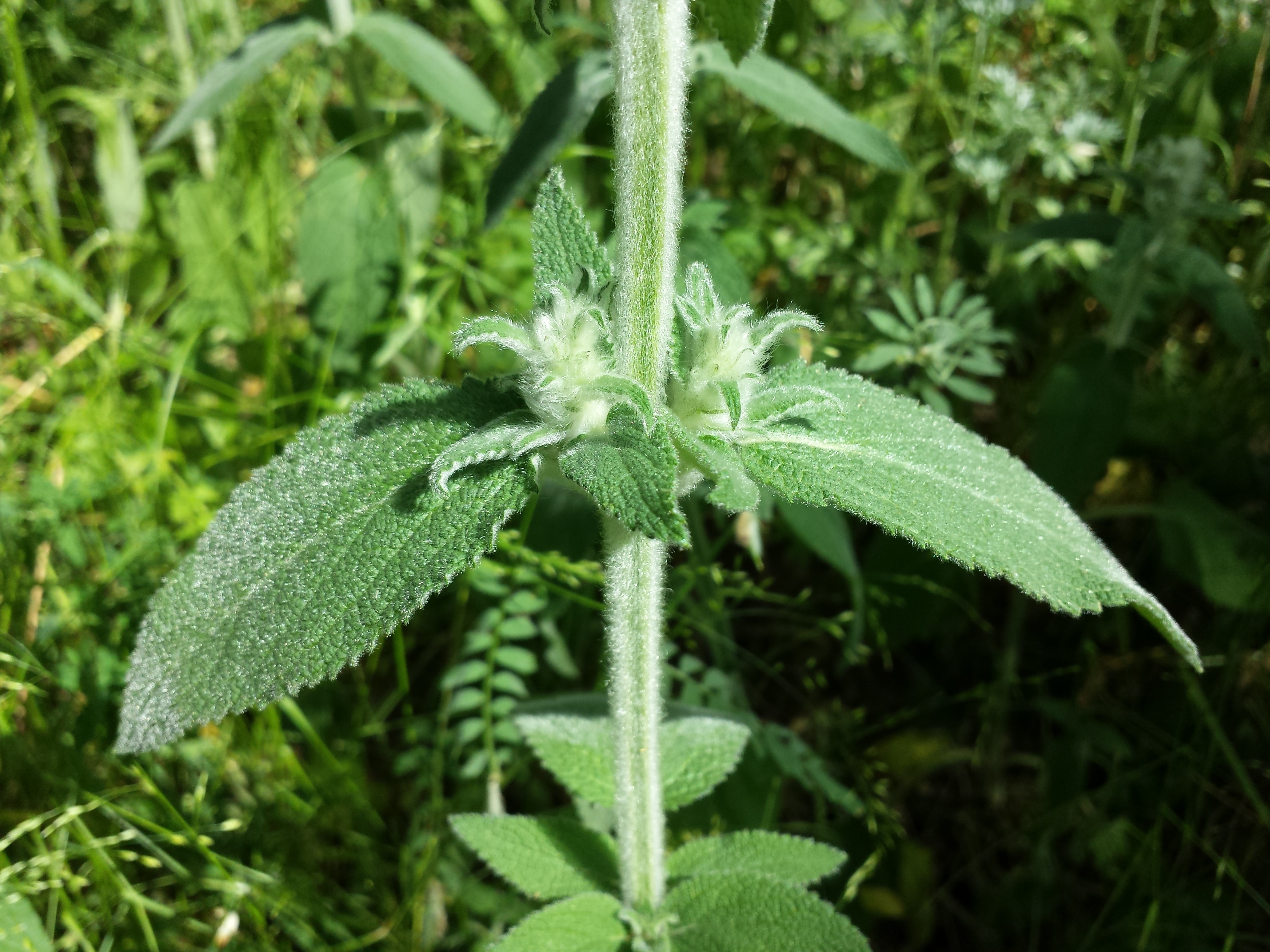 Stem with leaves Taxonym: Stachys germanica (subsp. germanica) ss Fischer et al. EfÖLS 2008 ISBN 978-3-85474-187-9 Location: Waldberg next to Niederkreuzstetten, district Mistelbach, Lower Austria - ca. 250 m a.s.l. Habitat: shrubbery